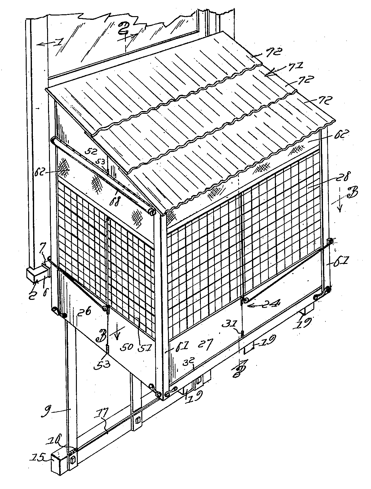 "Figure 1 is a view of a baby cage constructed in accordance with the invention and showing the same applied to a window."